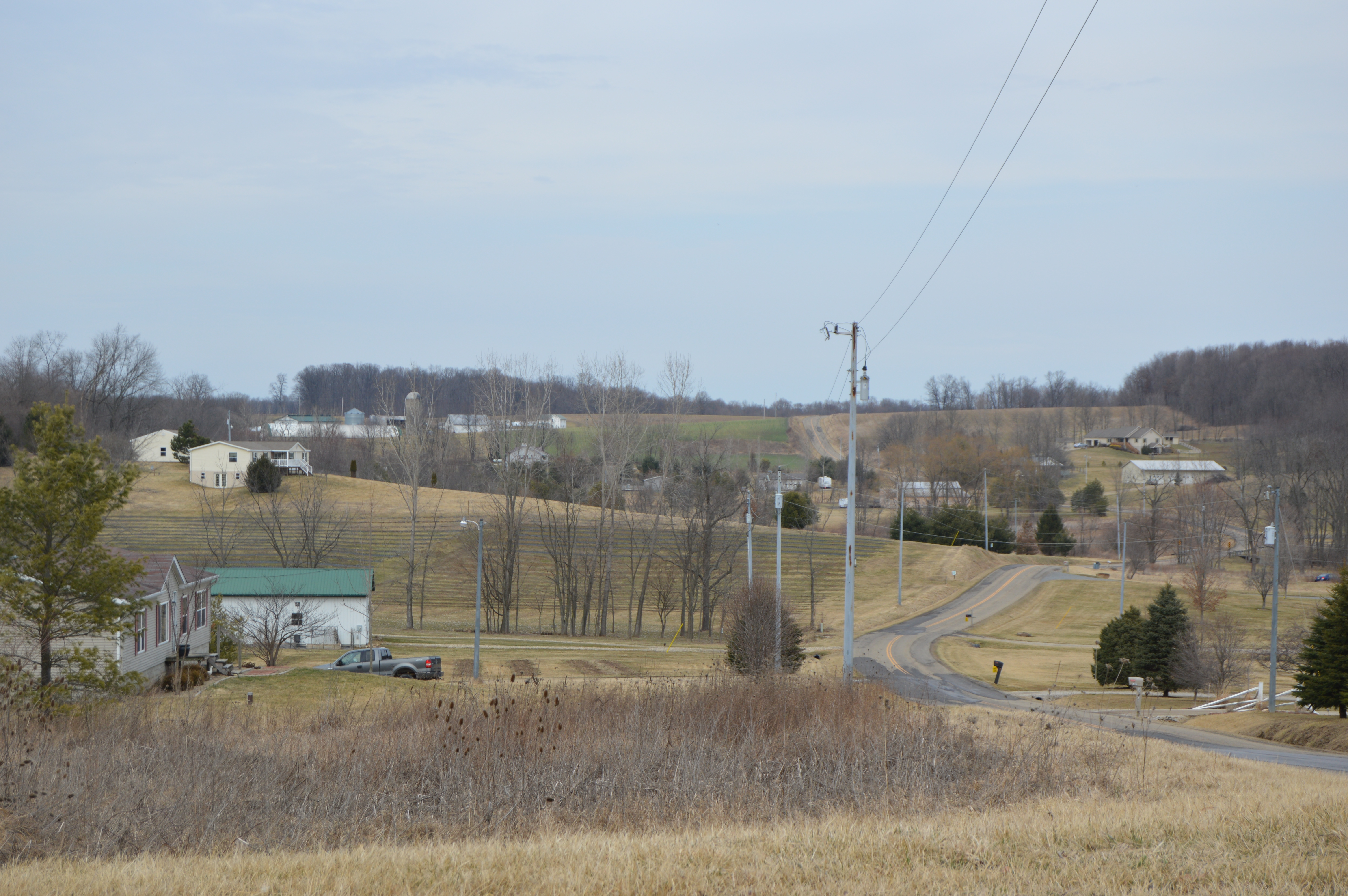 Houses along North Liberty Road, seen looking north from Upper Fredericktown Amity Road, in western Pike Township, Knox County, Ohio, United States.